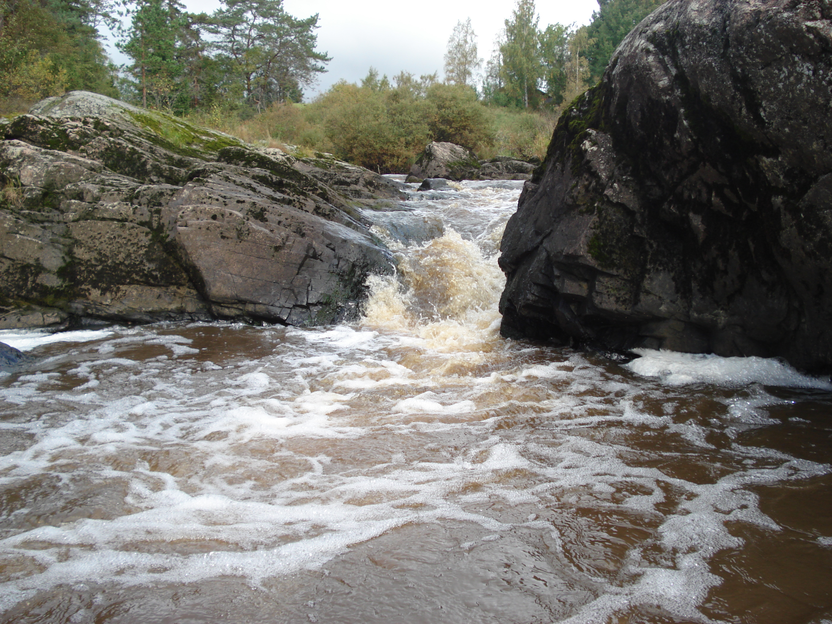 Nautelankoski is one of the most magnificent rapids of the Aura River. In a distance of half a kilometre, the drop is 17 metres. Is located Lieto, by the Aura River about 16 km from Turku, Finland.